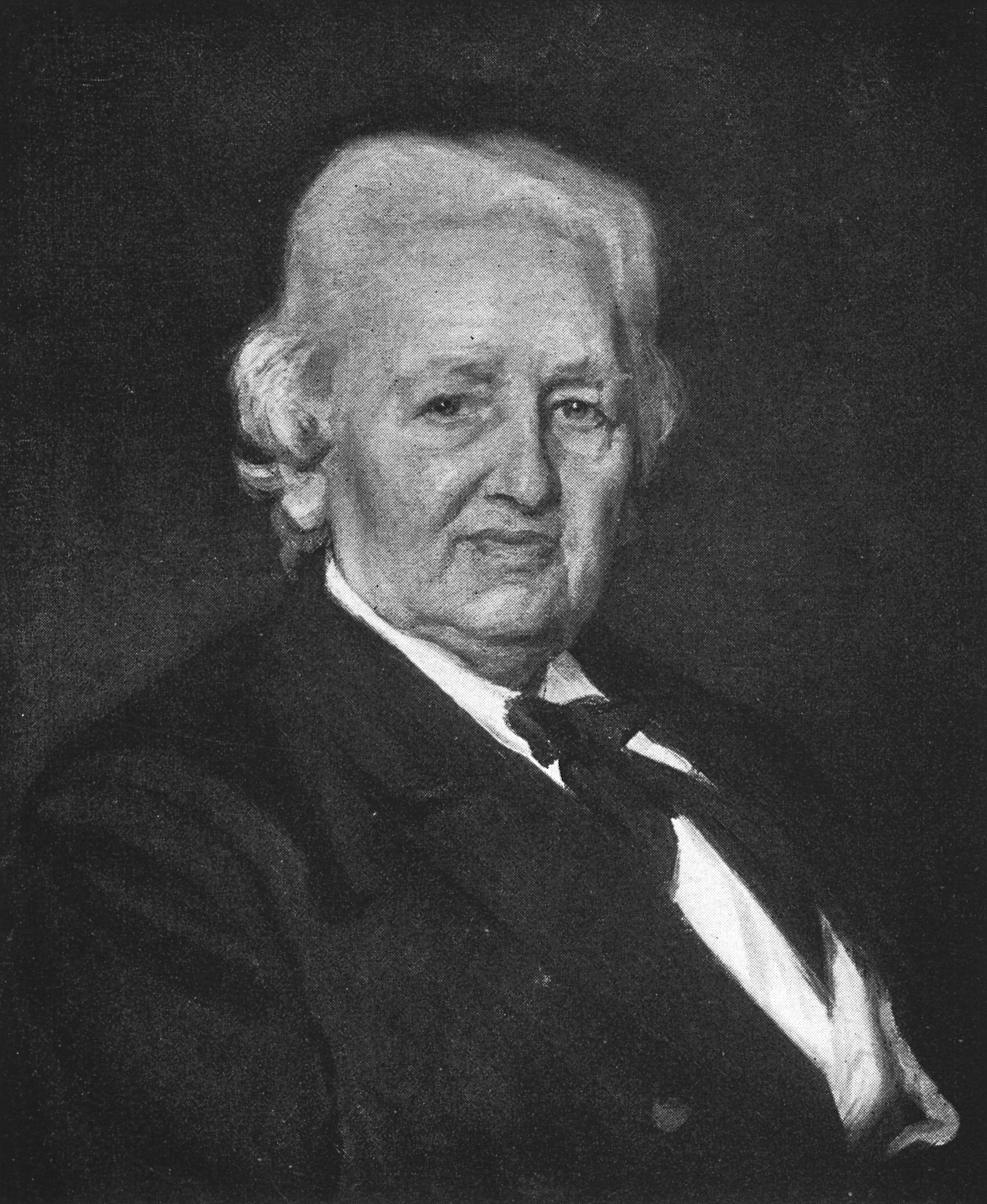 Carl August Fahlgren (1819-1905), Swedish artist (landscape painter)